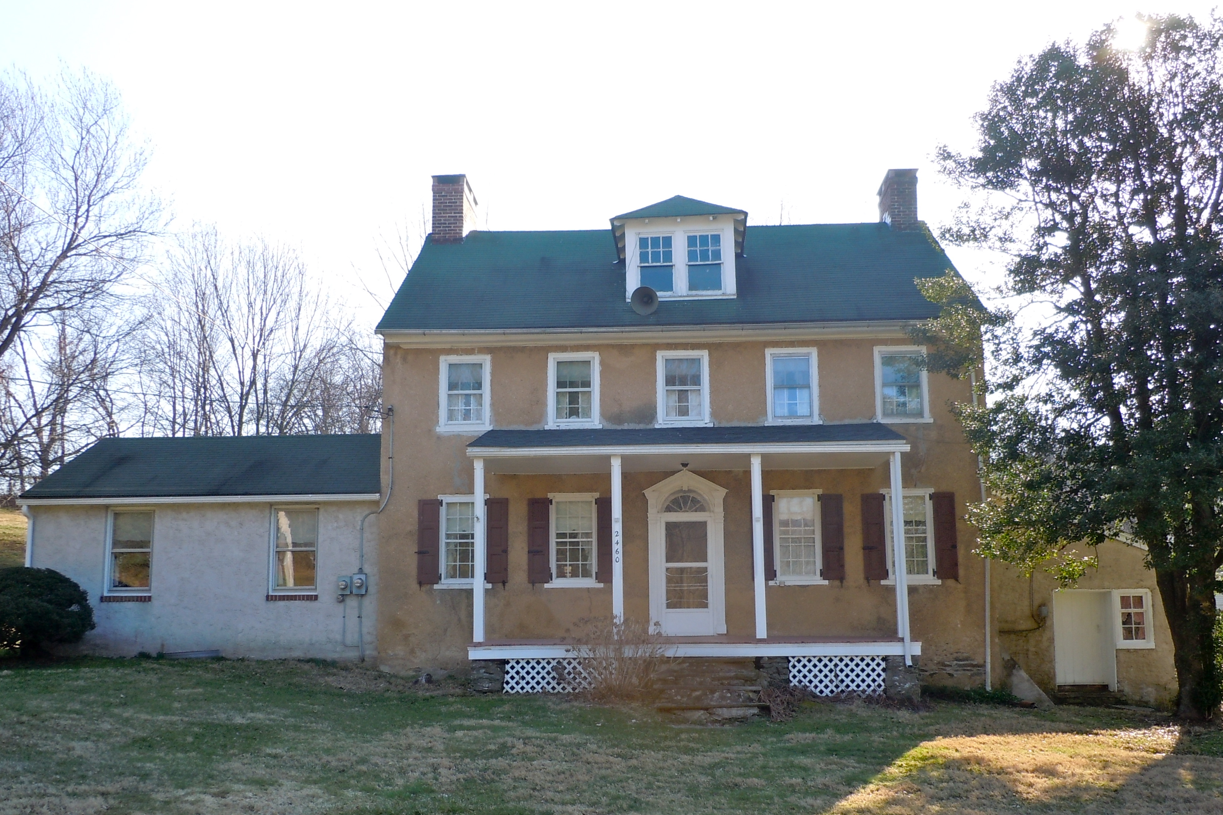 Robert Wilson House on the NRHP since September 18, 1985. On Strasburg Road near Coatesville in East Fallowfield Township, Chester County, Pennsylvania. Stucco over stone